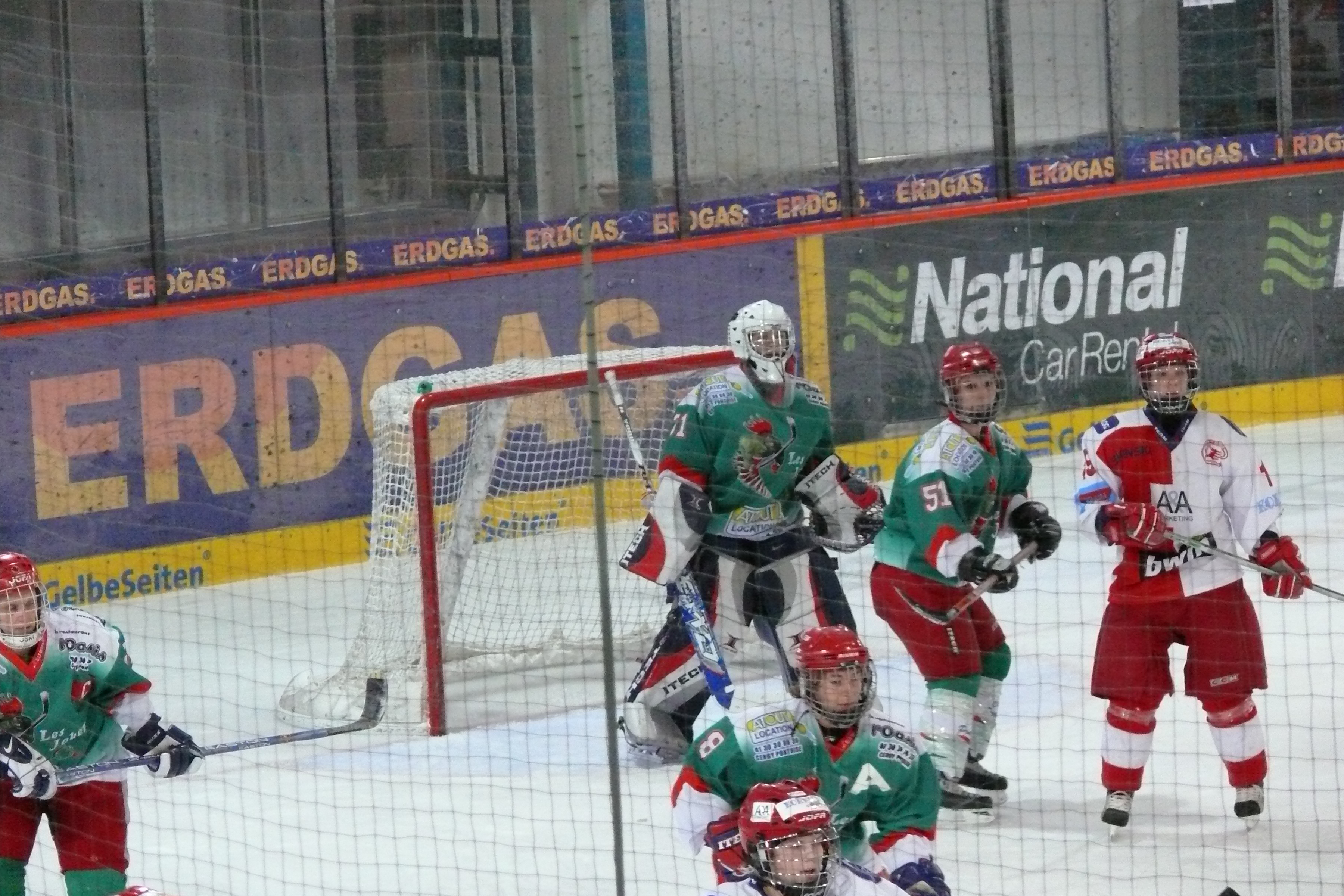 2nd round of the IIHF European Women Champions Cup 2008 in Berlin, game HC Cergy Pontoise (green) - HC Slavia Prague (red)